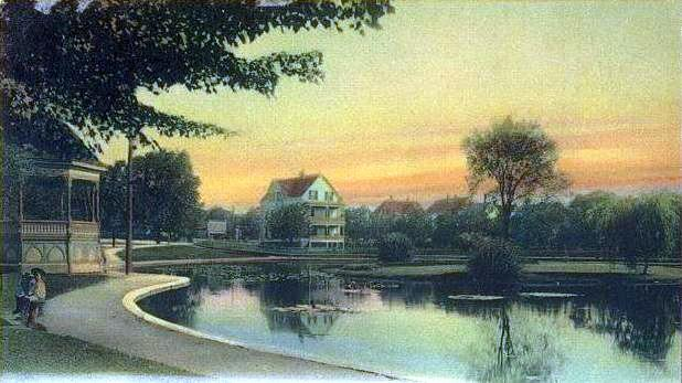 Goldfish Pond, Lafayette Park, Lynn, MA; from a 1905 postcard.